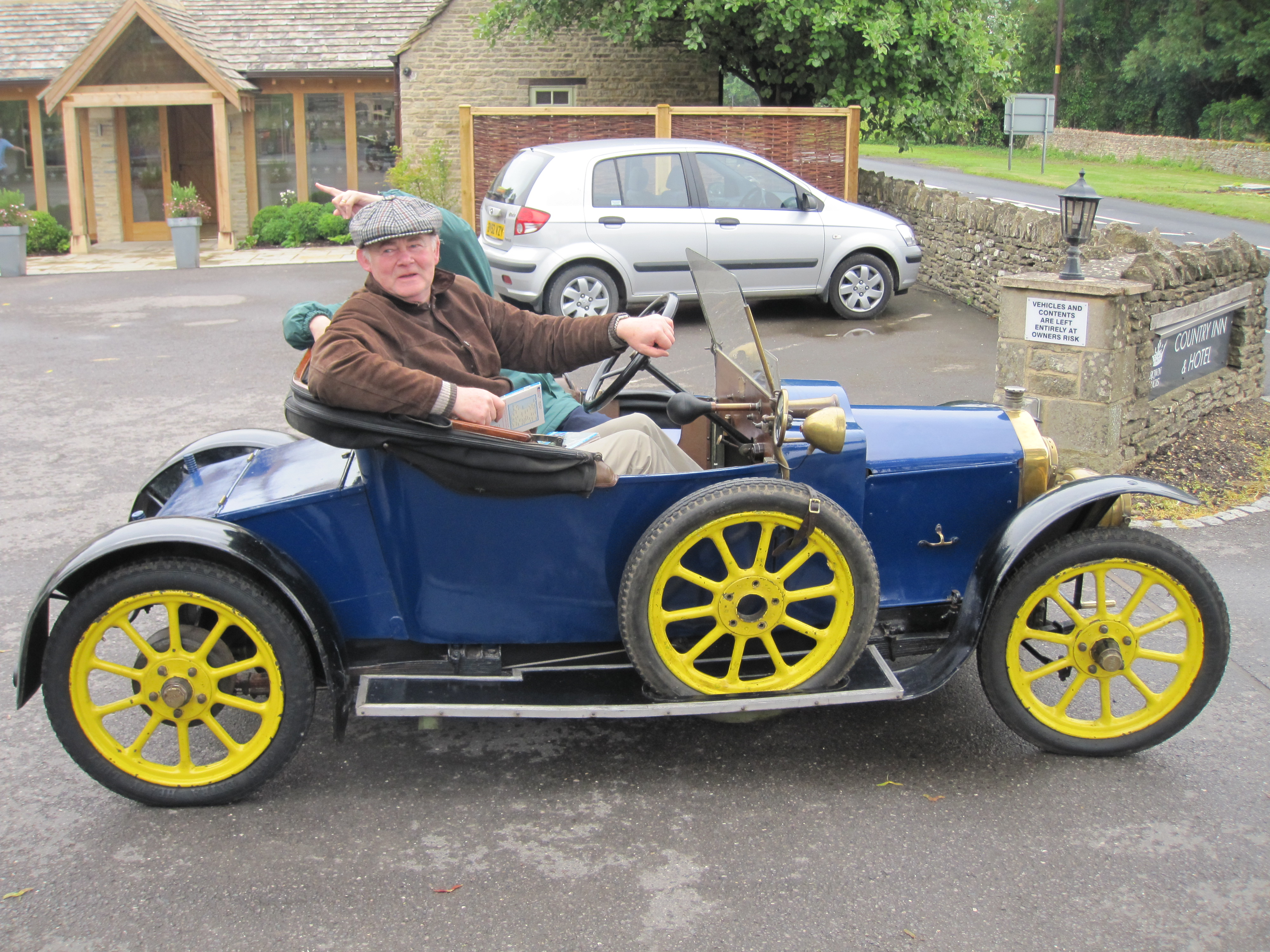 1914 (Wolseley) Stellite 9hp (DVLA) Veteran Car Club of Great Britain Cotswold Caper